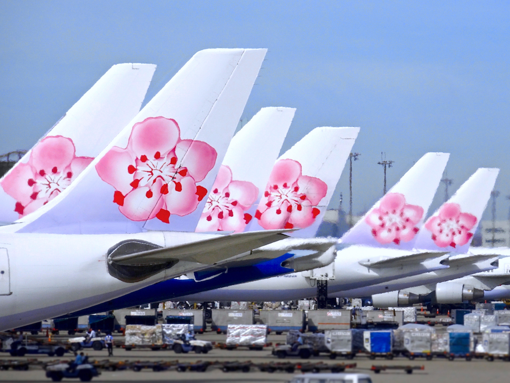 Line-up of China Airlines jets, including the Airbus A330-300, Boeing 747-400 and Boeing 777-300ER, at Taiwan Taoyuan International Airport.